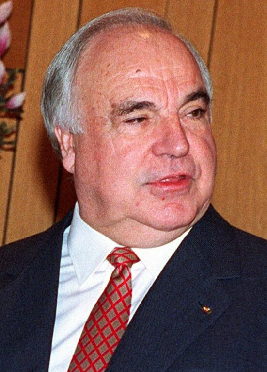 Helmut Kohl, former chancellor of the Federal Republic of Germany